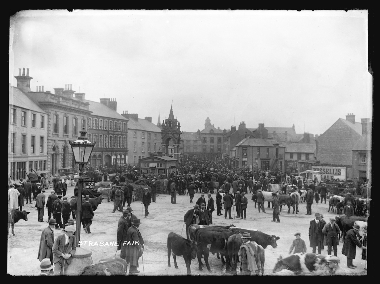 Creator: Herbert. F. Cooper (Photographer) Date: c.1910 Original Format: Glass Plate Negative Description: Strabane Fair PRONI Ref: D1422_A_4_15_032~A Copying and copyright: Please For Copy Orders, contact: For fees and charges